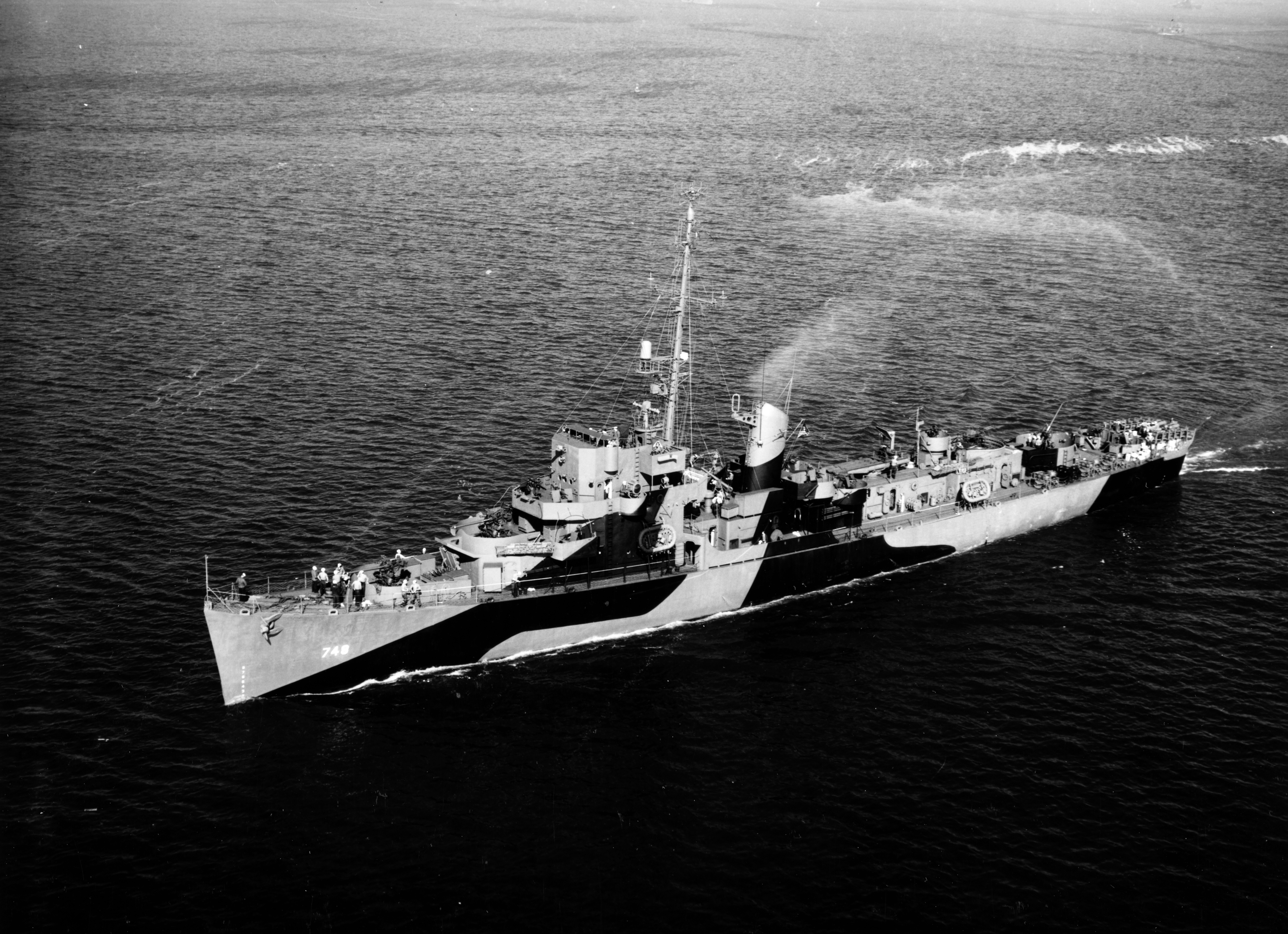 The U.S. Navy destroyer escort USS Tills (DE-748) underway off San Pedro, California (USA), on 11 October 1944. She is painted in Camouflage Measure 31, Design 10D.